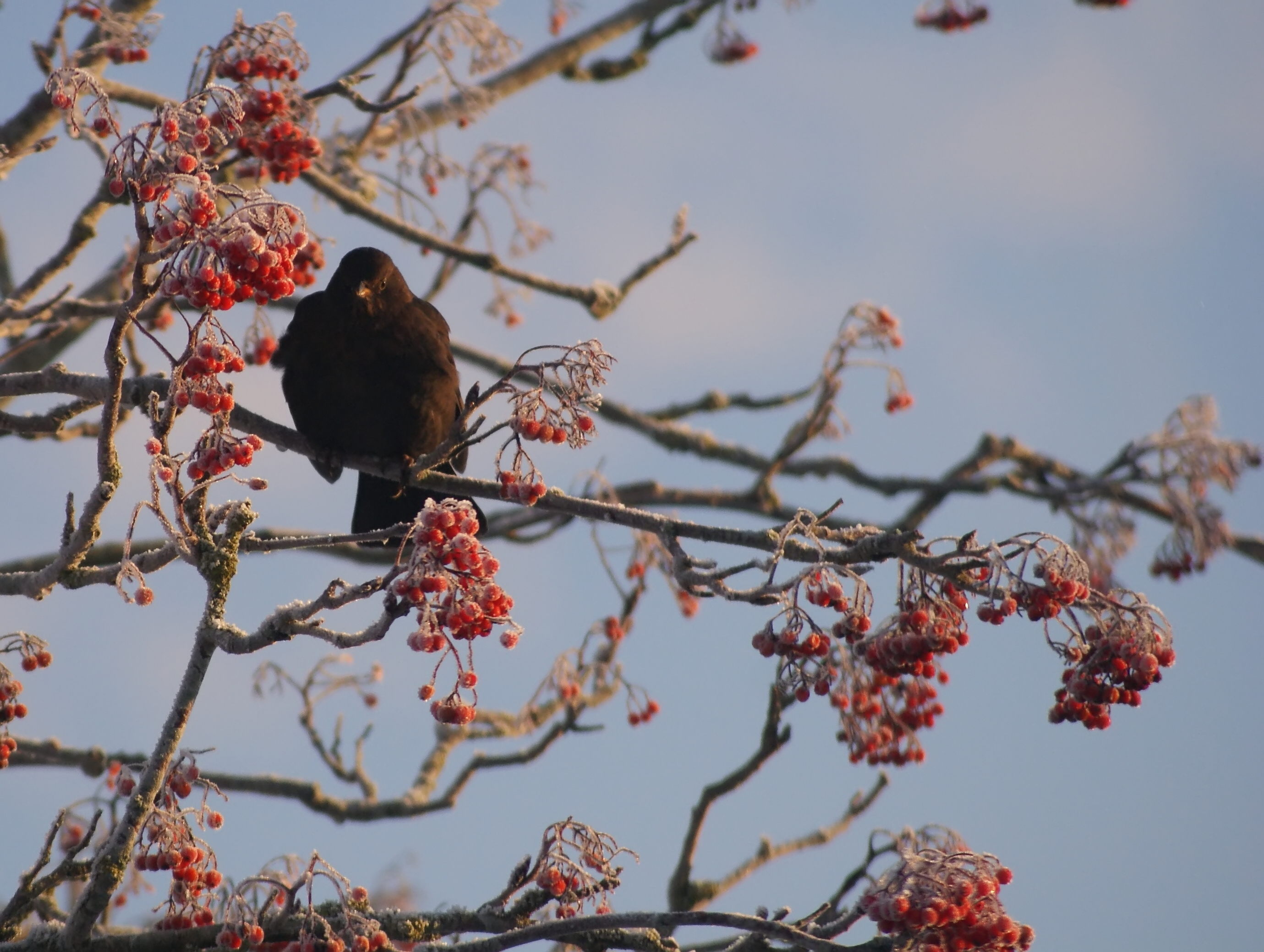 Blackbird (Turdus merula) posing on a cold day (about -8 deg C) in an Rowan tree (Sorbus aucuparia). Photo taken in my front yard. Exact location hidden due to privacy concerns, but we are near Viborg in Denmark. The blackbird is defending the berries from a flock of Turdus pilaris, who are circling around.